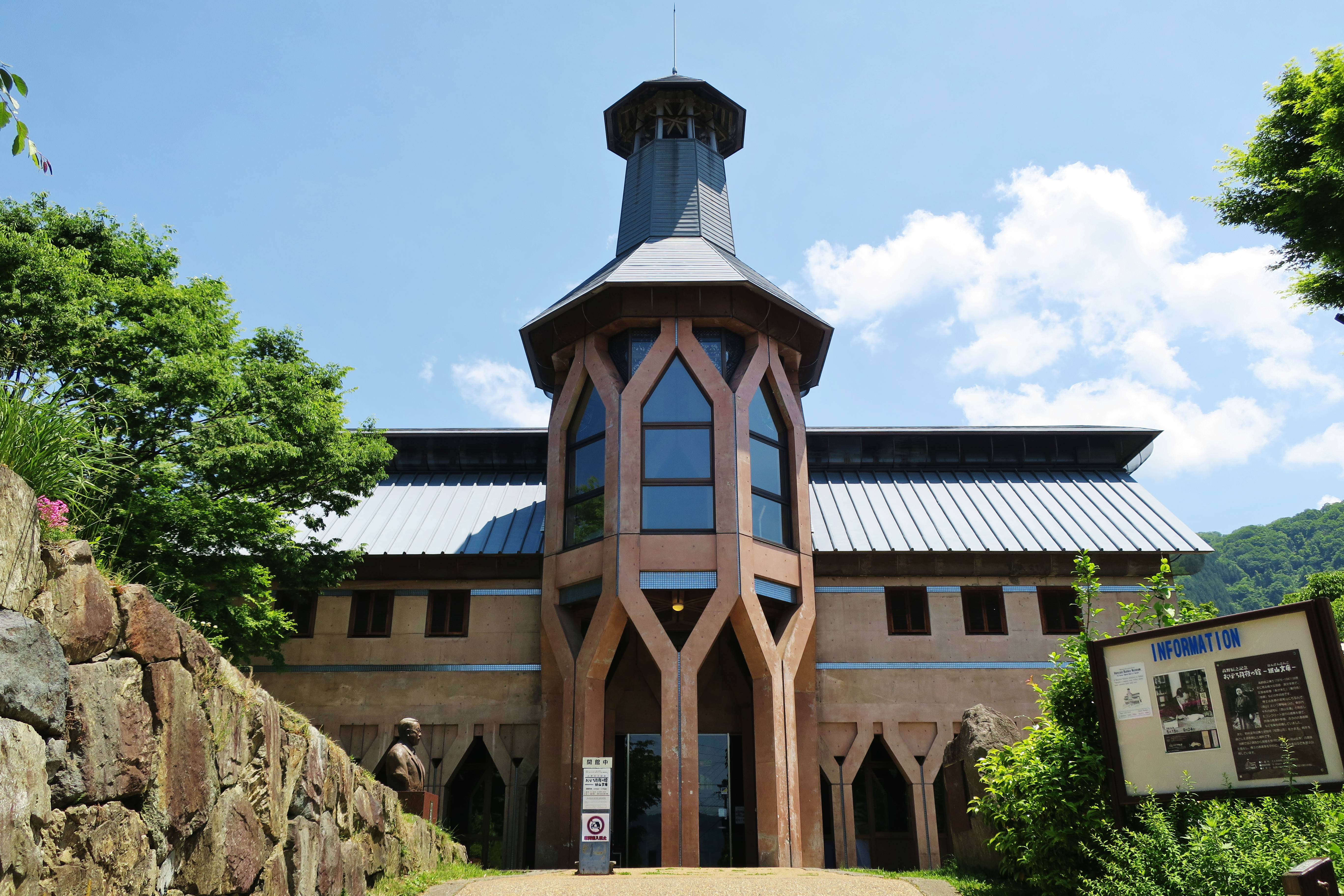 Oborozukiyo no Yakata Hanzan Bunko (Nozawaonsen, Nagano).